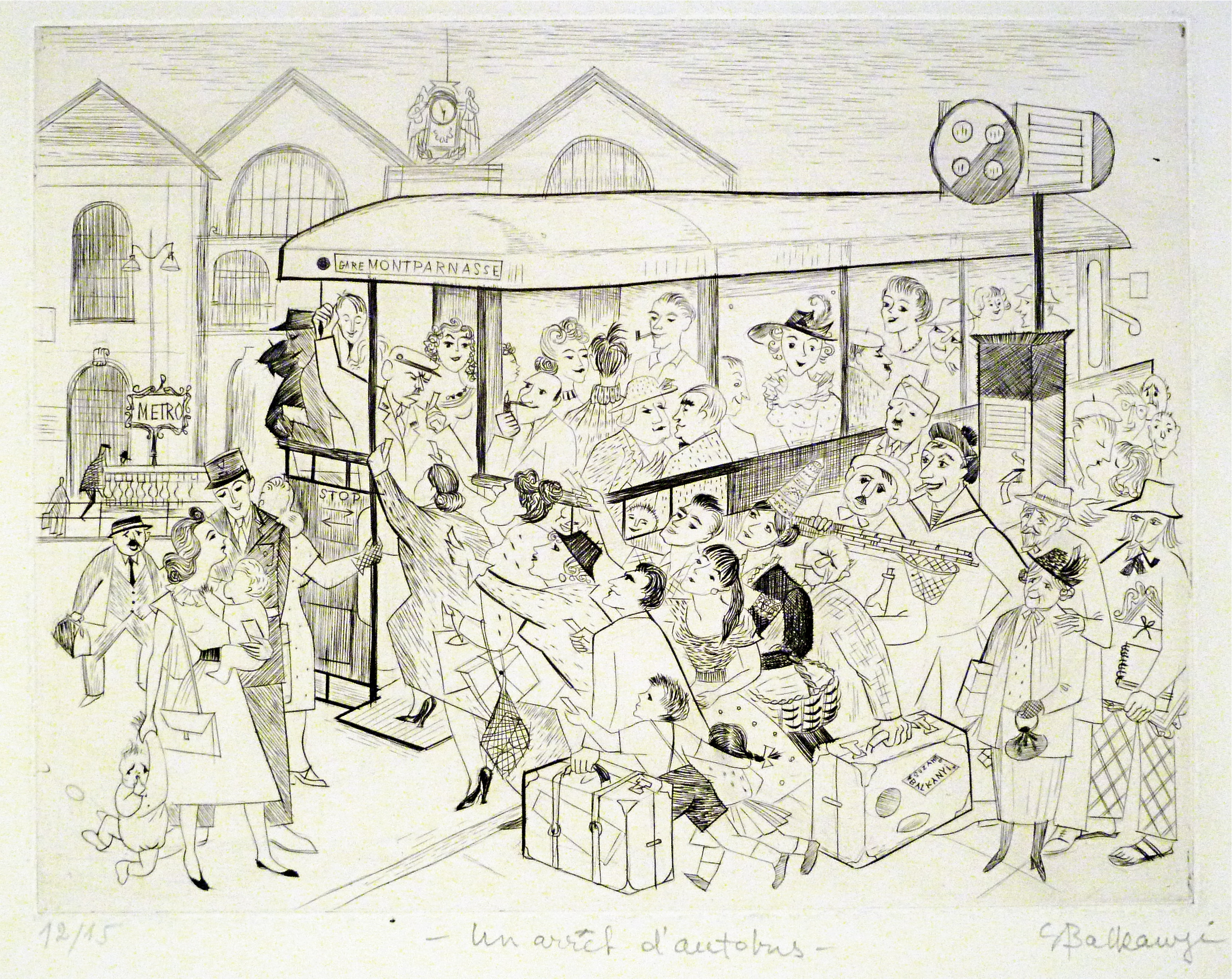 "Un Arret d"autobus" (A Bus Stop). Etching by Suzanne Balkanyi